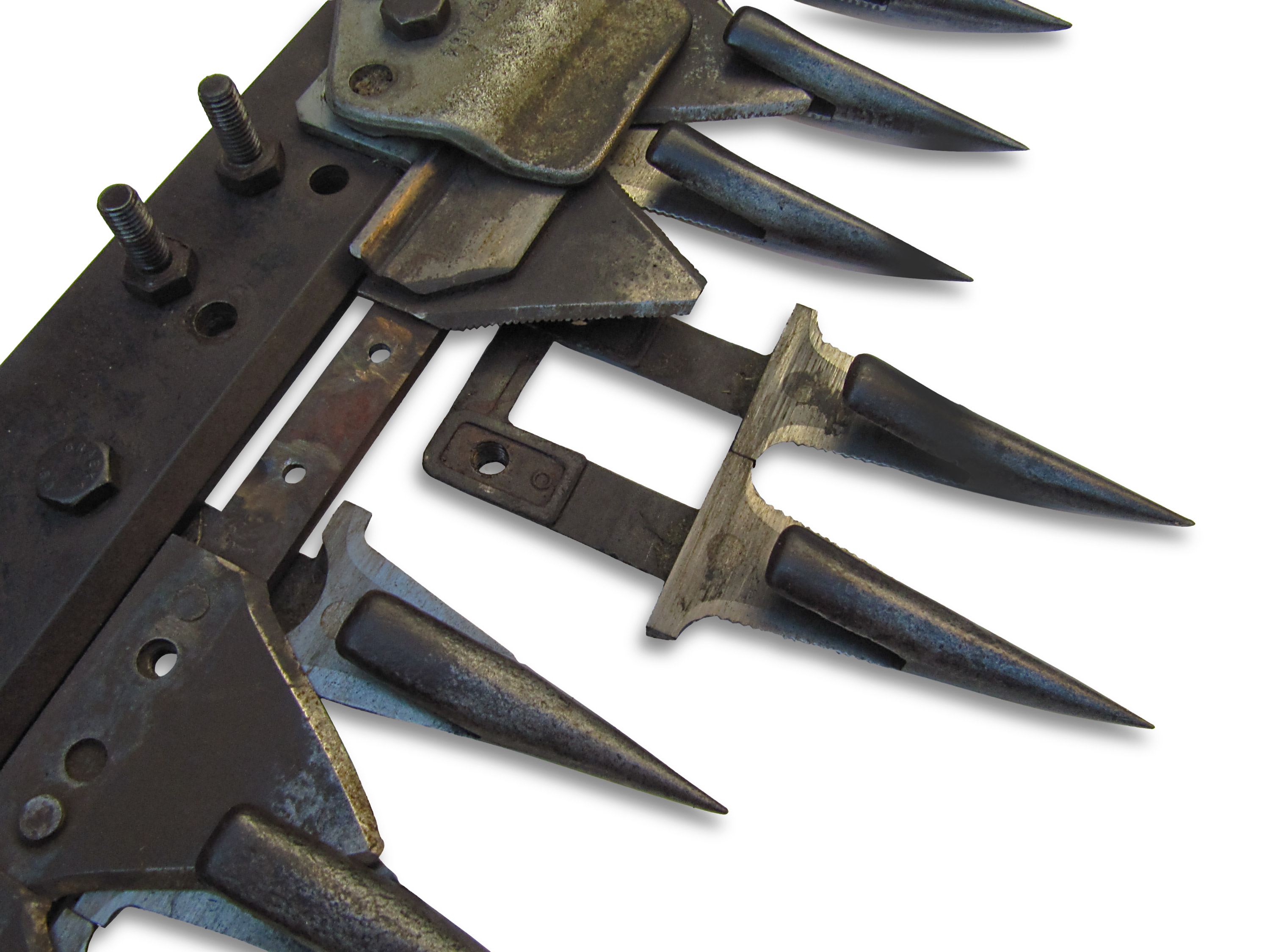 Finger bar mover: details of the partially demounted sickle bar